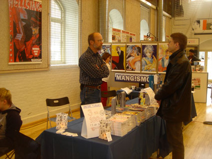 Jesper Holm at the Mangismo stand, at the Komiks.dk 2006 comics festival in København, Denmark.